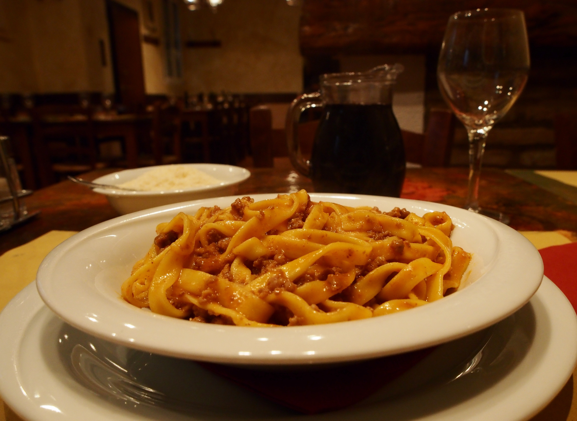 "Tagliatelle al ragu Bolognese" as served in Bologna. They are often wrongly named as Spaghetti Bolognese.